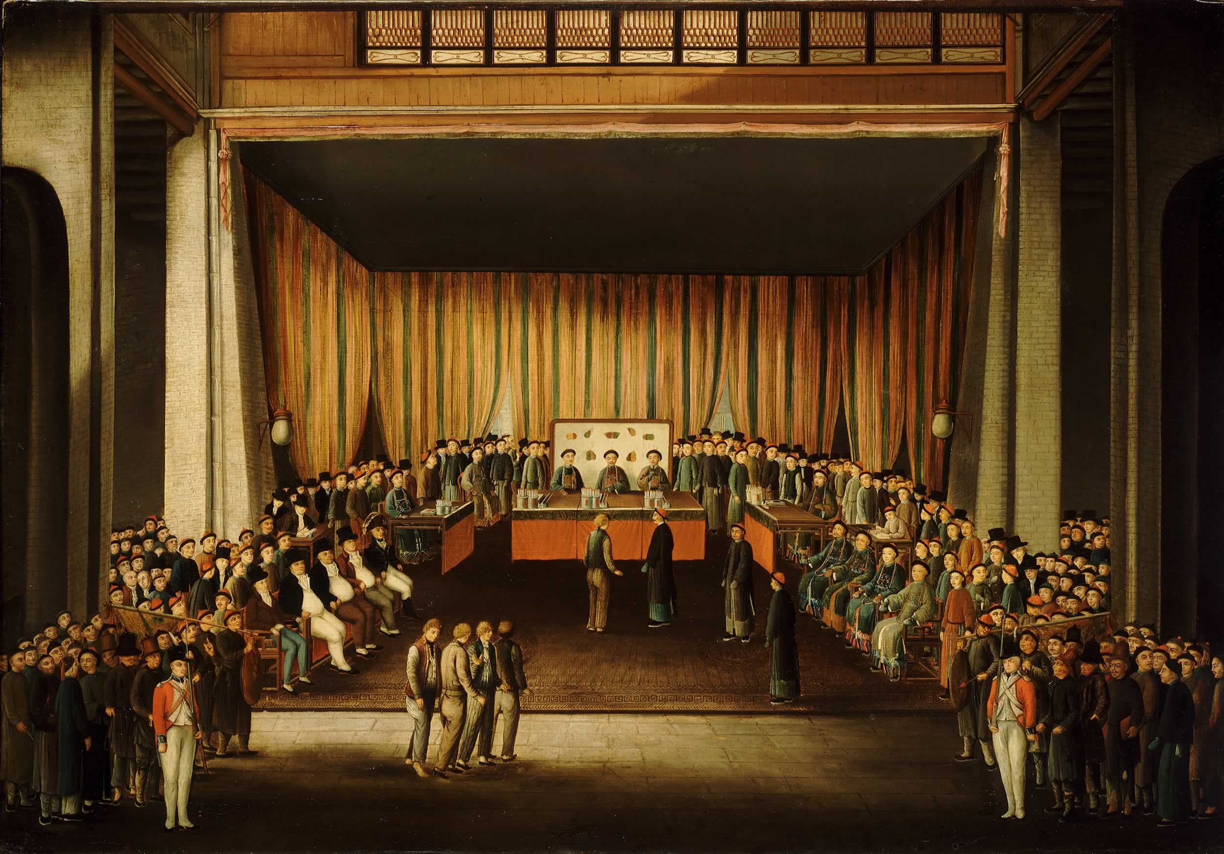 Trial of four British seamen at Canton, 1 October 1807: scene inside the court.